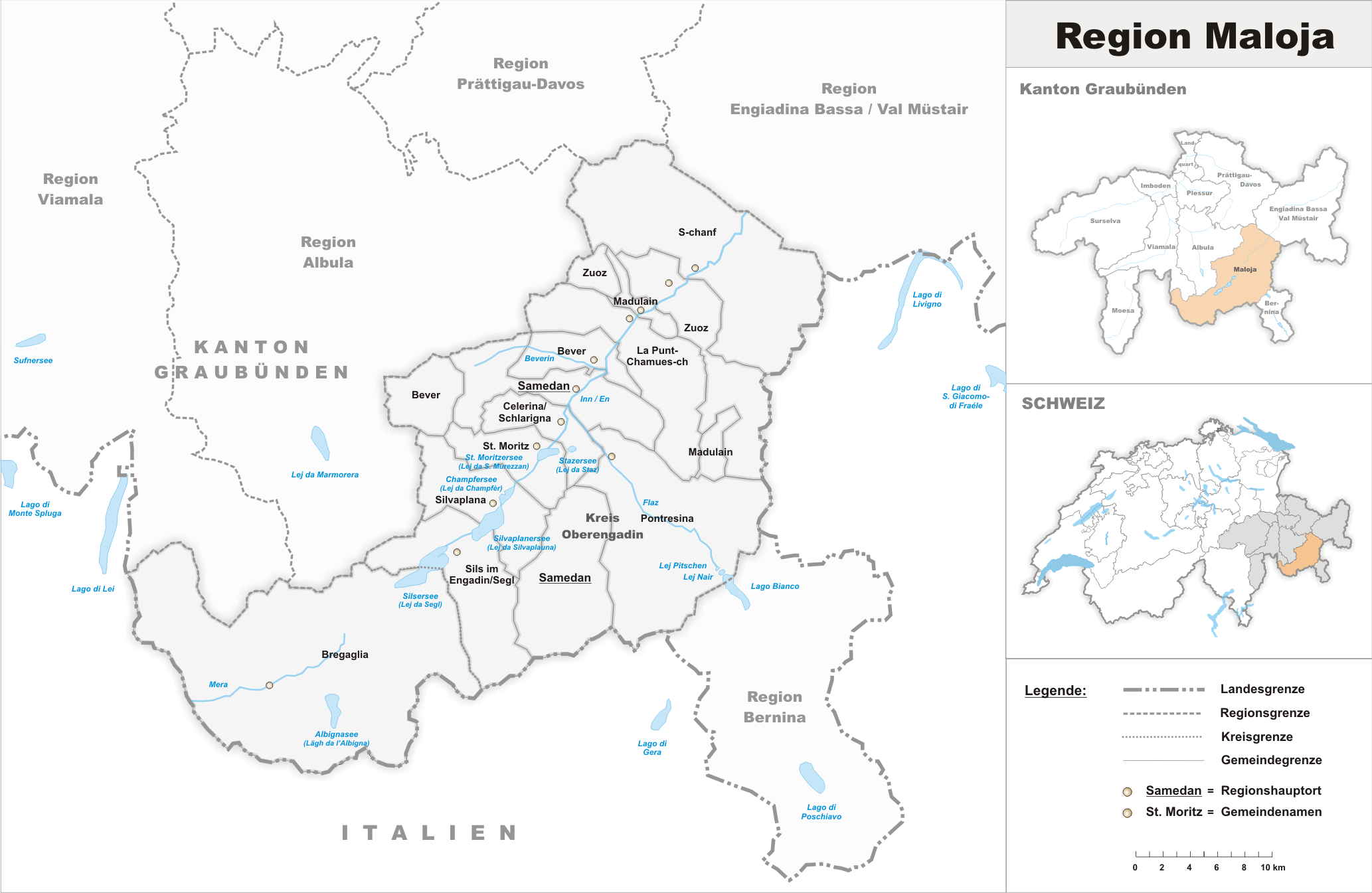 Municipalities in the district of Maloja